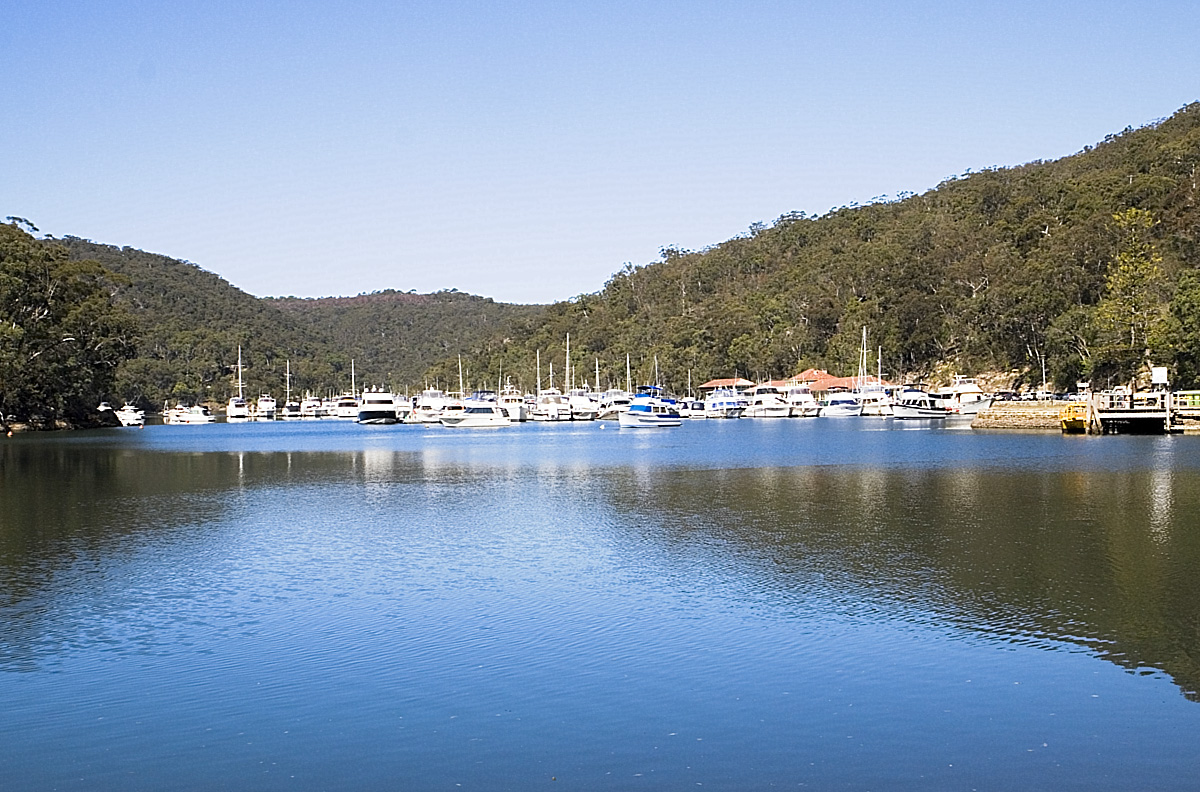 View of the marina at Bobbin Head, New South Wales, taken by me 22AUG2006 Mike Funnell 22:11, 24 August 2006 (UTC)